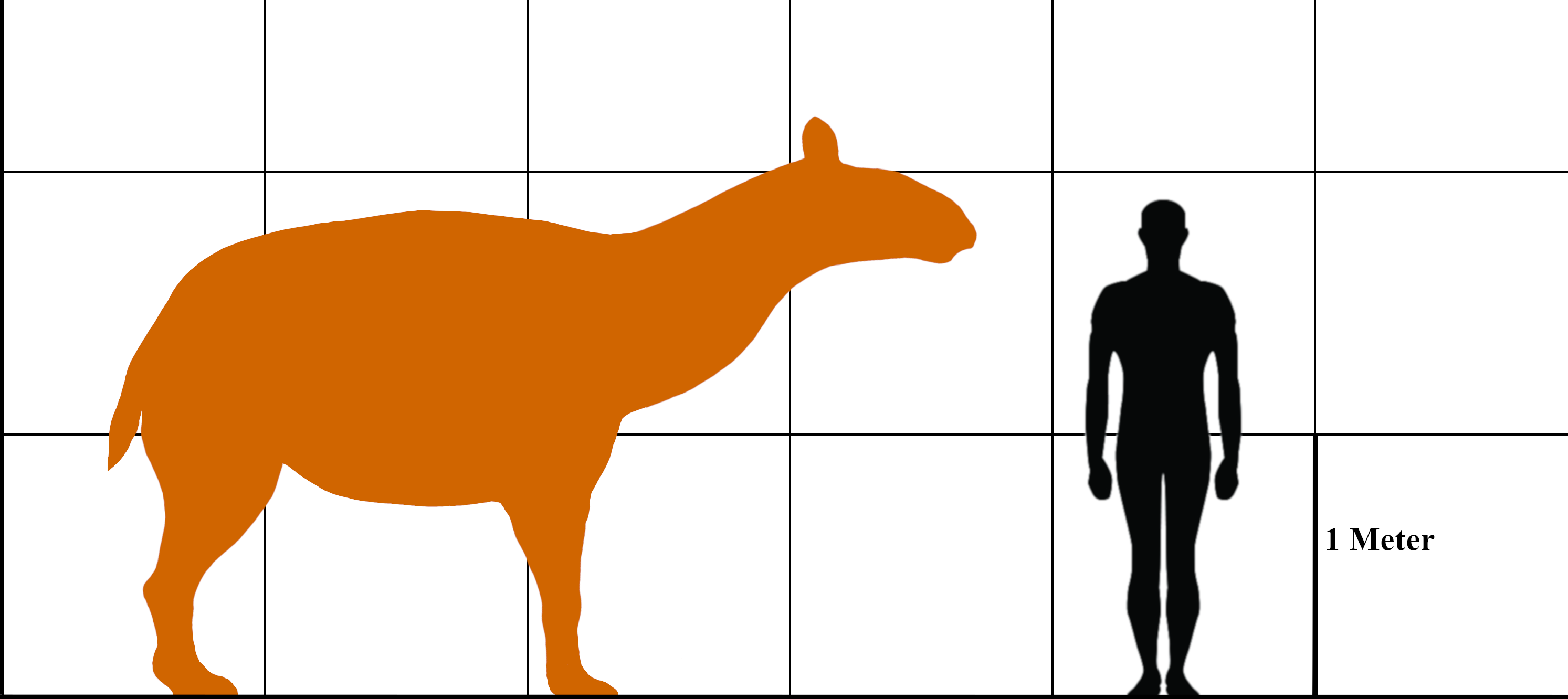 Macrauchenia patachonica compared to a human (180 cm tall)